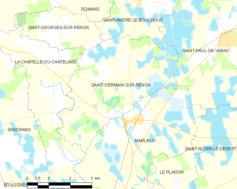 Map of French commune: Saint-Germain-sur-Renon Map commune FR insee code 01359.png